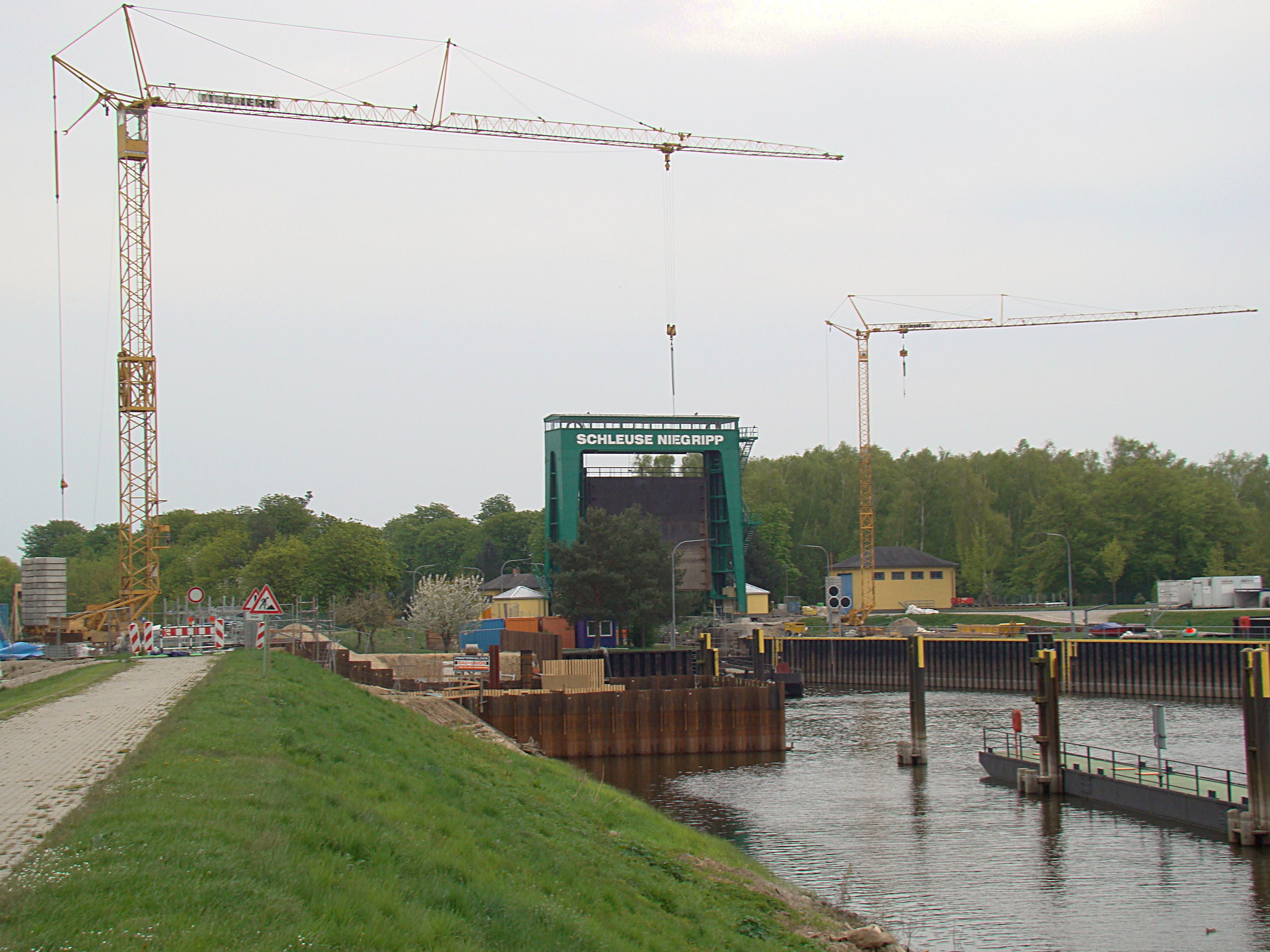 New sluice at Niegripp, municipality of Burg bei Magdeburg